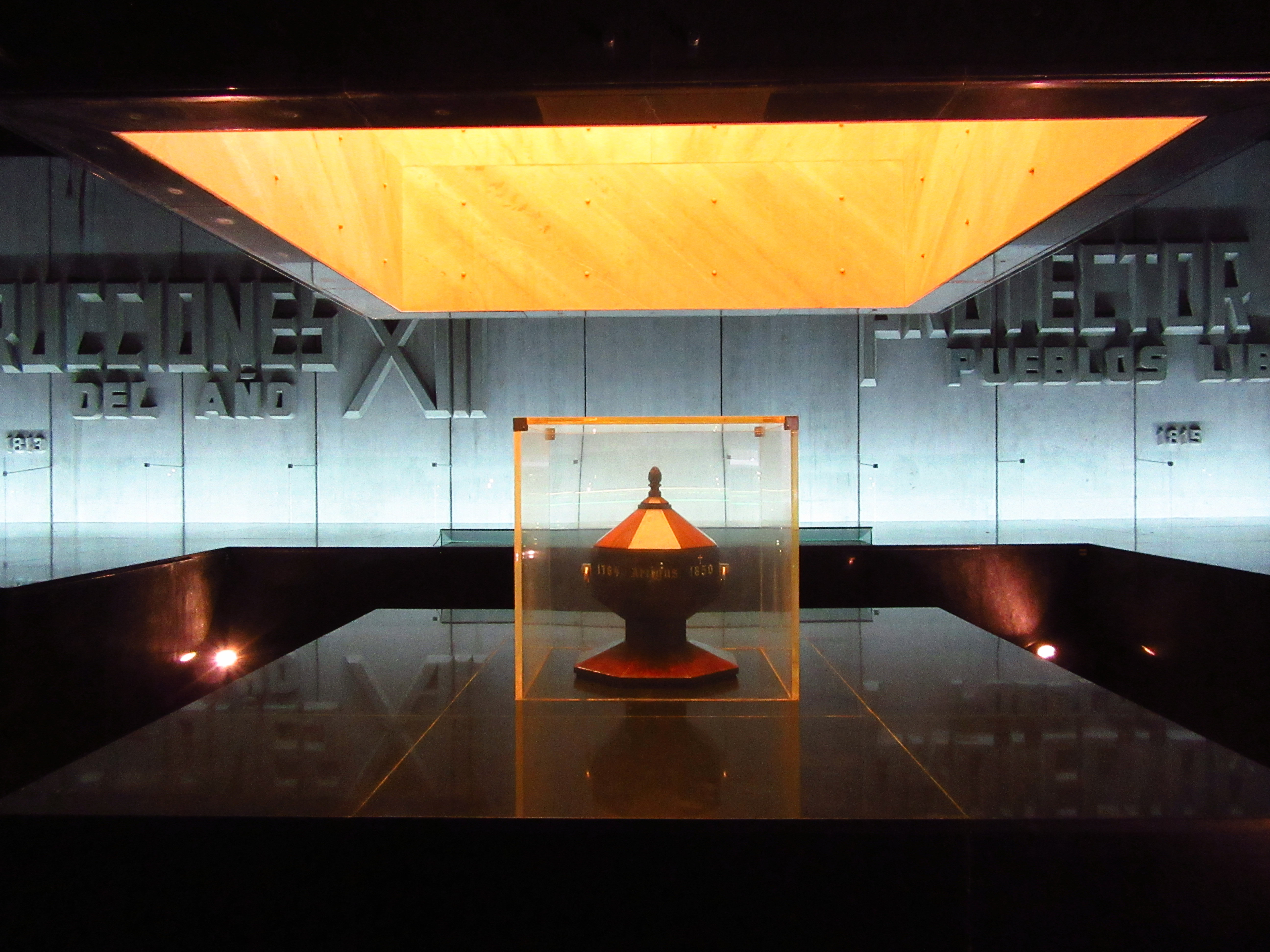 Montevideo